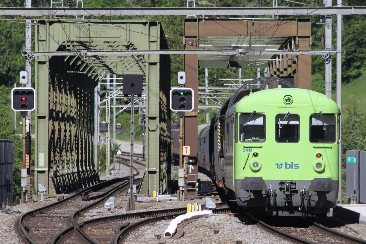 BLS BDt 50 85 80-35 946-3 leaving Brig train station at the tail of a car shuttle train from Iselle di Trasquera to Kandersteg.